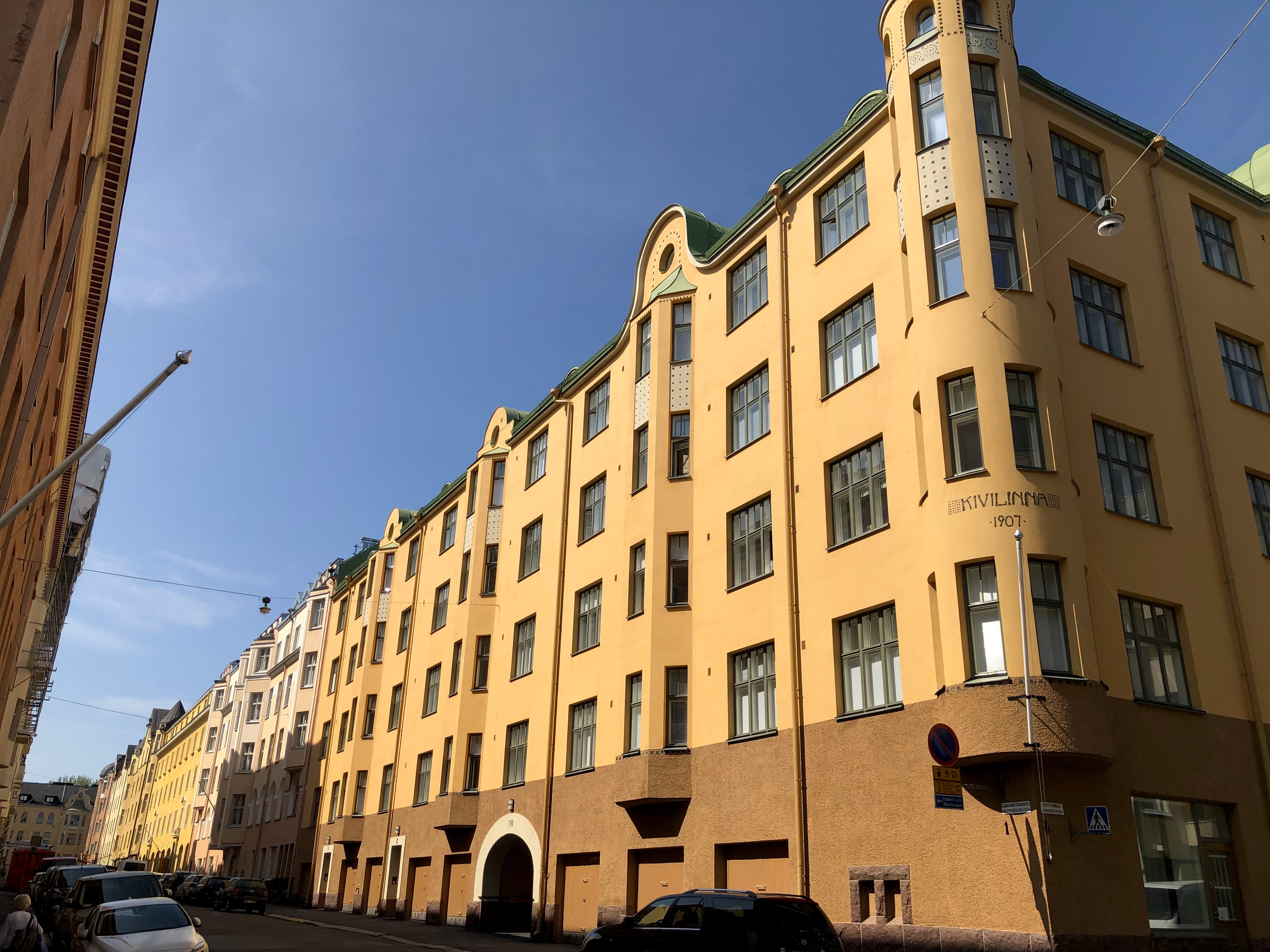 Laivanvarustajankatu in Ullanlinna, Helsinki Finland July 2019.